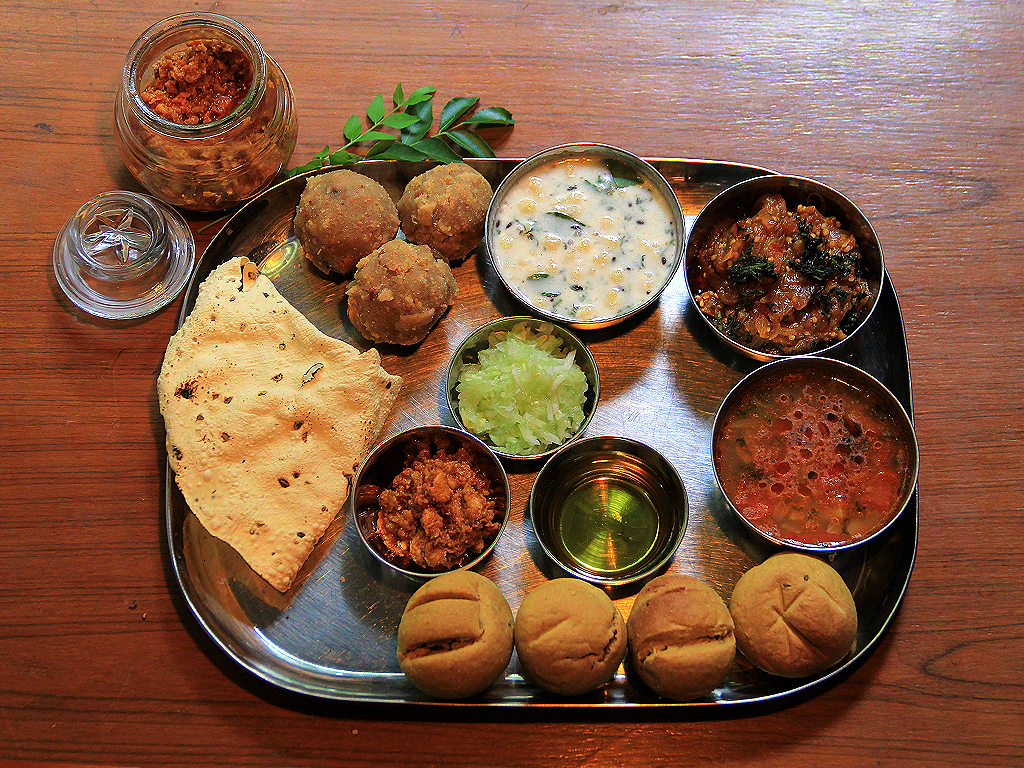 Dal-Bati Choorma This devine combination of simple stuff makes it different from other meals. Daal- Baati(made from Wheat floor), Choorma laddoo(made from baati, sugar and dry fruits),Baigan(egg plant/ brinjal and other spices) ka bhurta, Raita or Kadhi(buttermilk), chatni(generally Pudina/ mint) are mainly served together. Ghee is poured onto the bati after crushing it.This cuisine is from Rajasthan and also popular in Madhya Pradesh(mainly in Nimar and Malwa region).